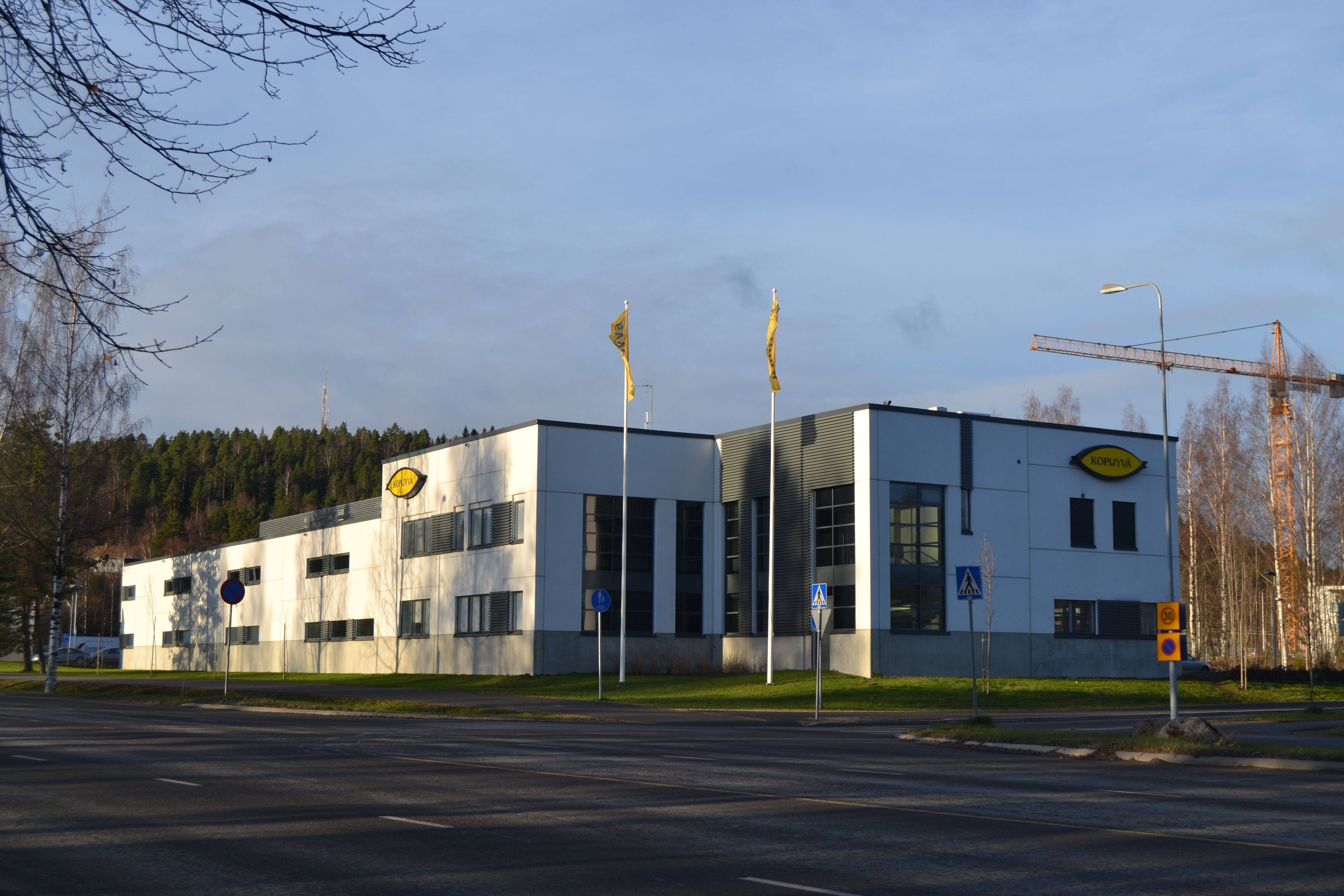 Kopijyvä building in Jyväskylä, Finland